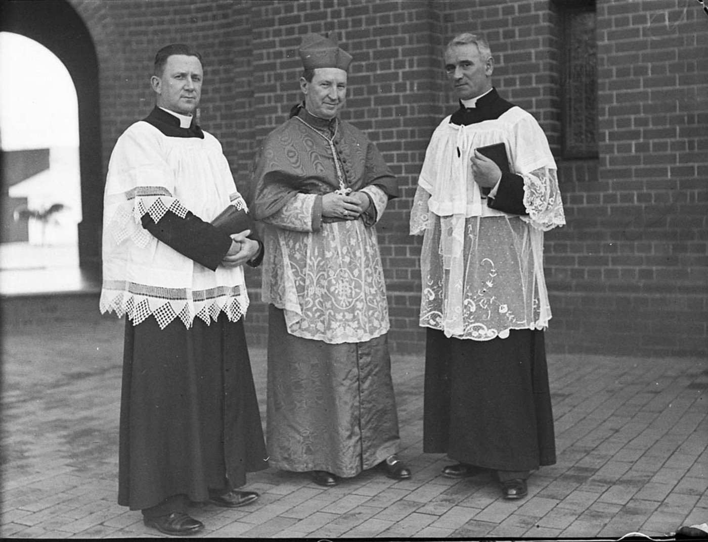 Cardinal Gilroy's visit to Christian Brothers' Training College, Strathfield